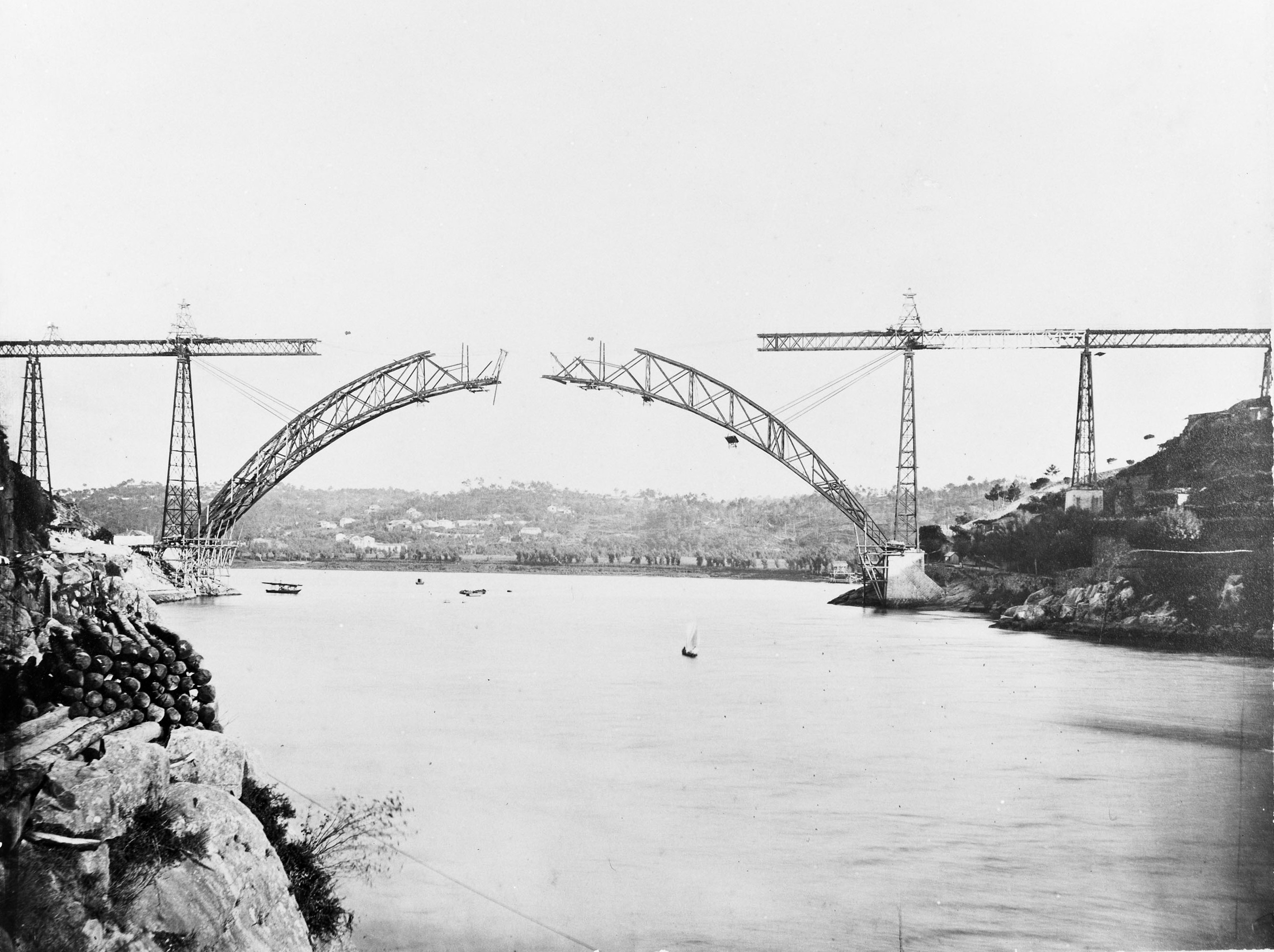 Construction of the D. Maria Pia railway bridge, near the city of Oporto, in Portugal. Situation of the works in 15 August 1877.